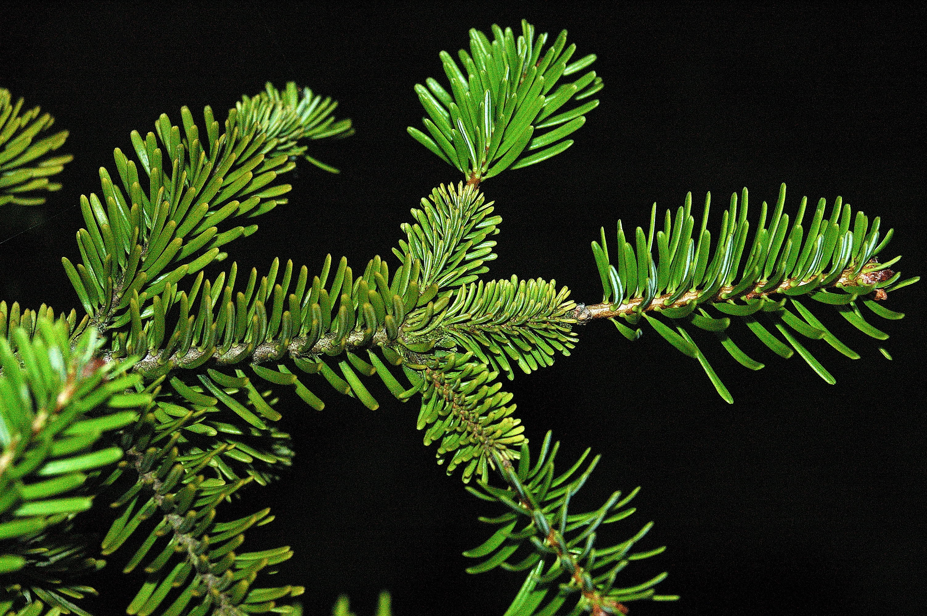 Abies species, probably Abies nordmanniana. Drought-damaged a year ago (short leaves)Abeto